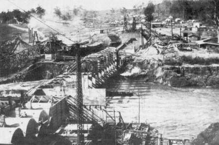 Powersite Dam picture taken 1913